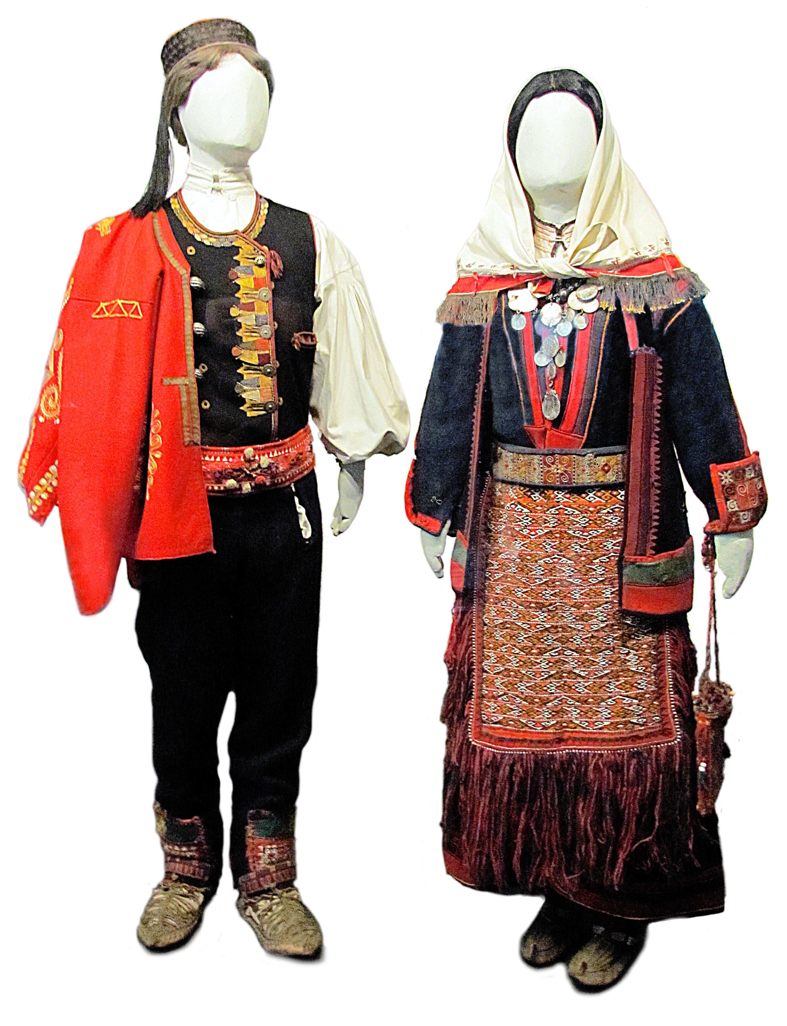 Male and Female Serbian national costume from Bukovica, Dalmatia, end of XIX c